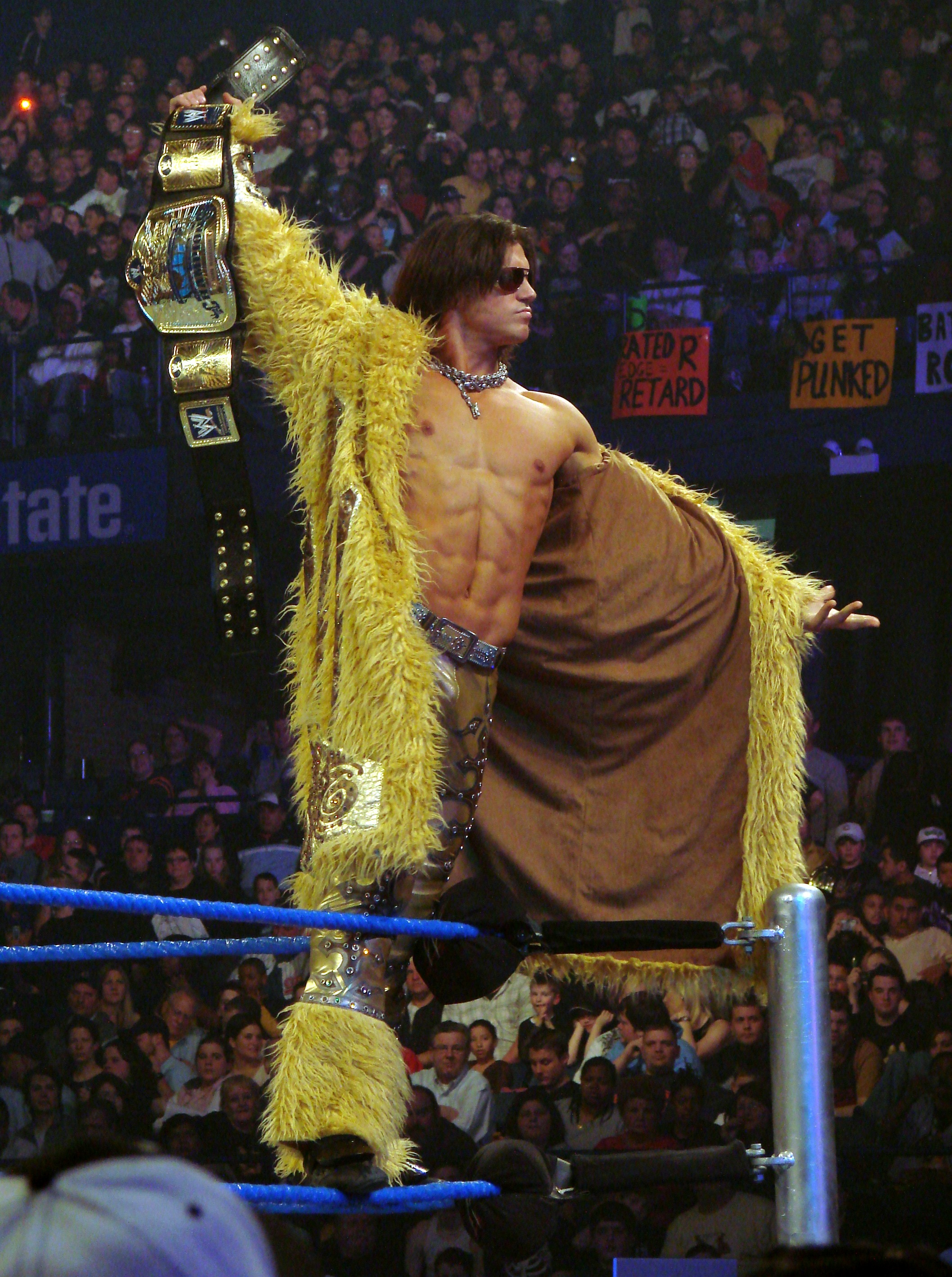 WWE Tag Team Champion John Morrison at WWE Smackdown. Allstate Arena, Rosemont, IL. (notice how ridiculously well defined his abs are)